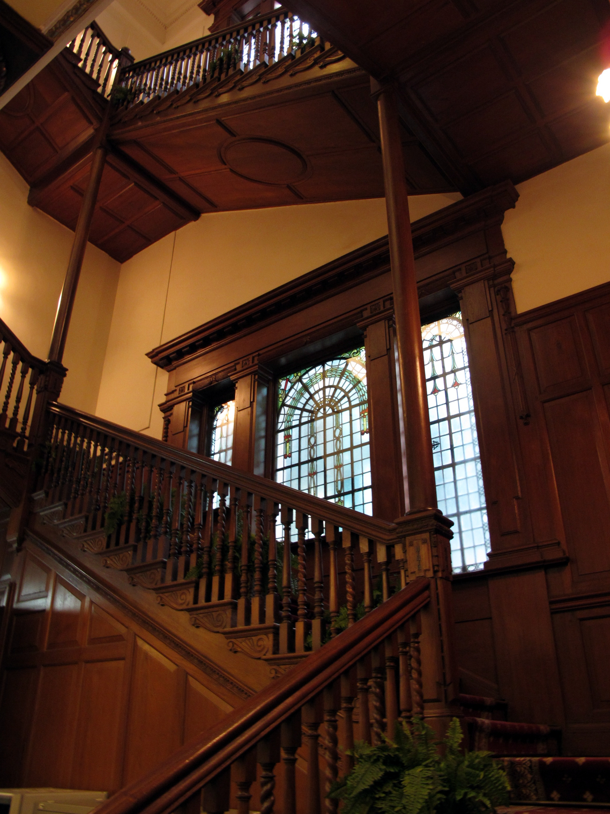 Kom Tong Hall Stair 甘棠第樓梯